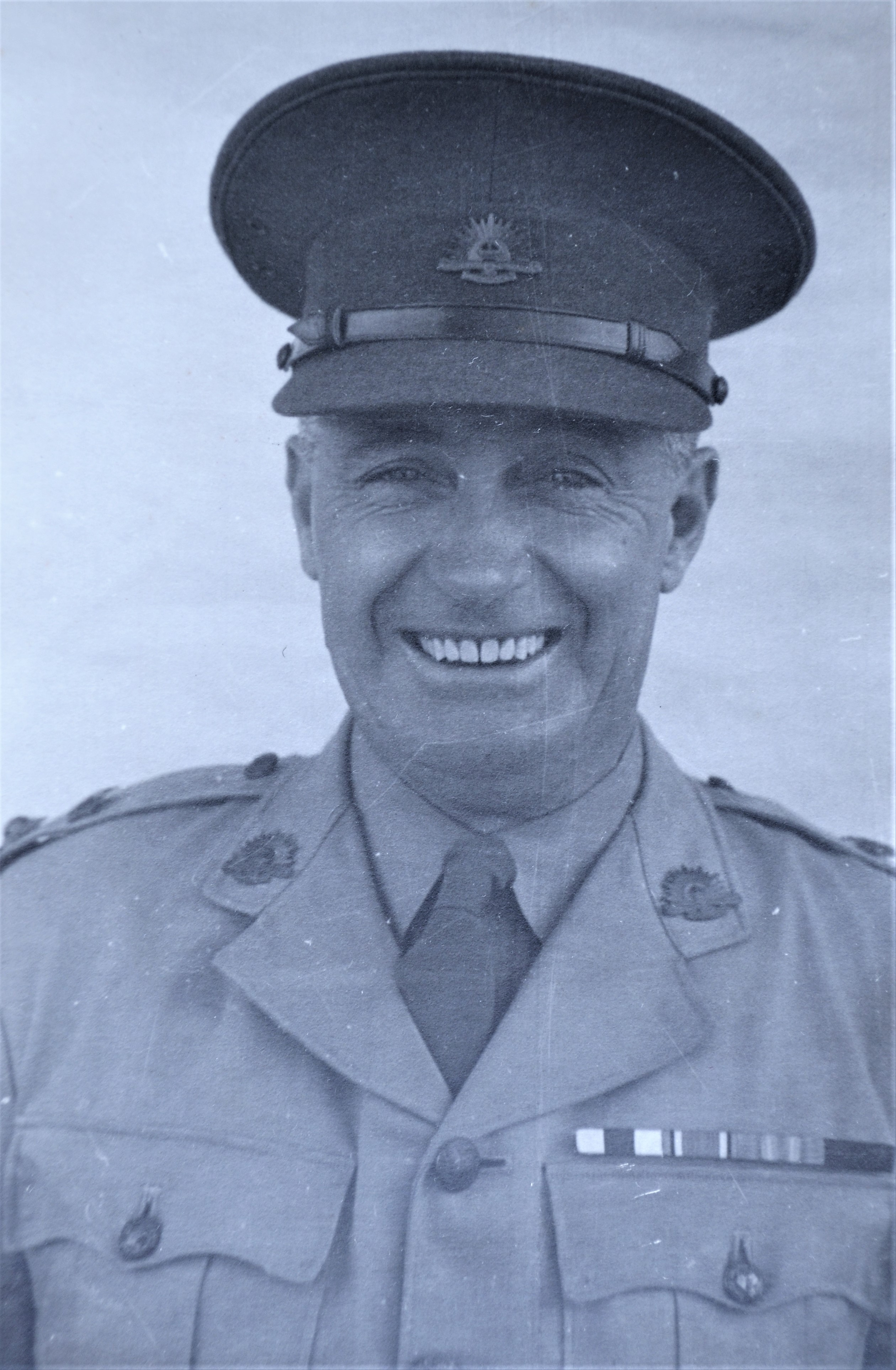 At Bonegilla